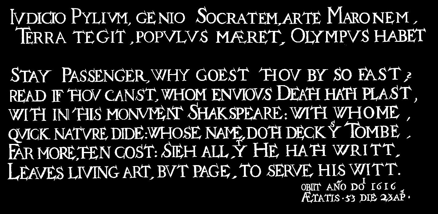 Copy of the inscription on Shakekepeare's monument